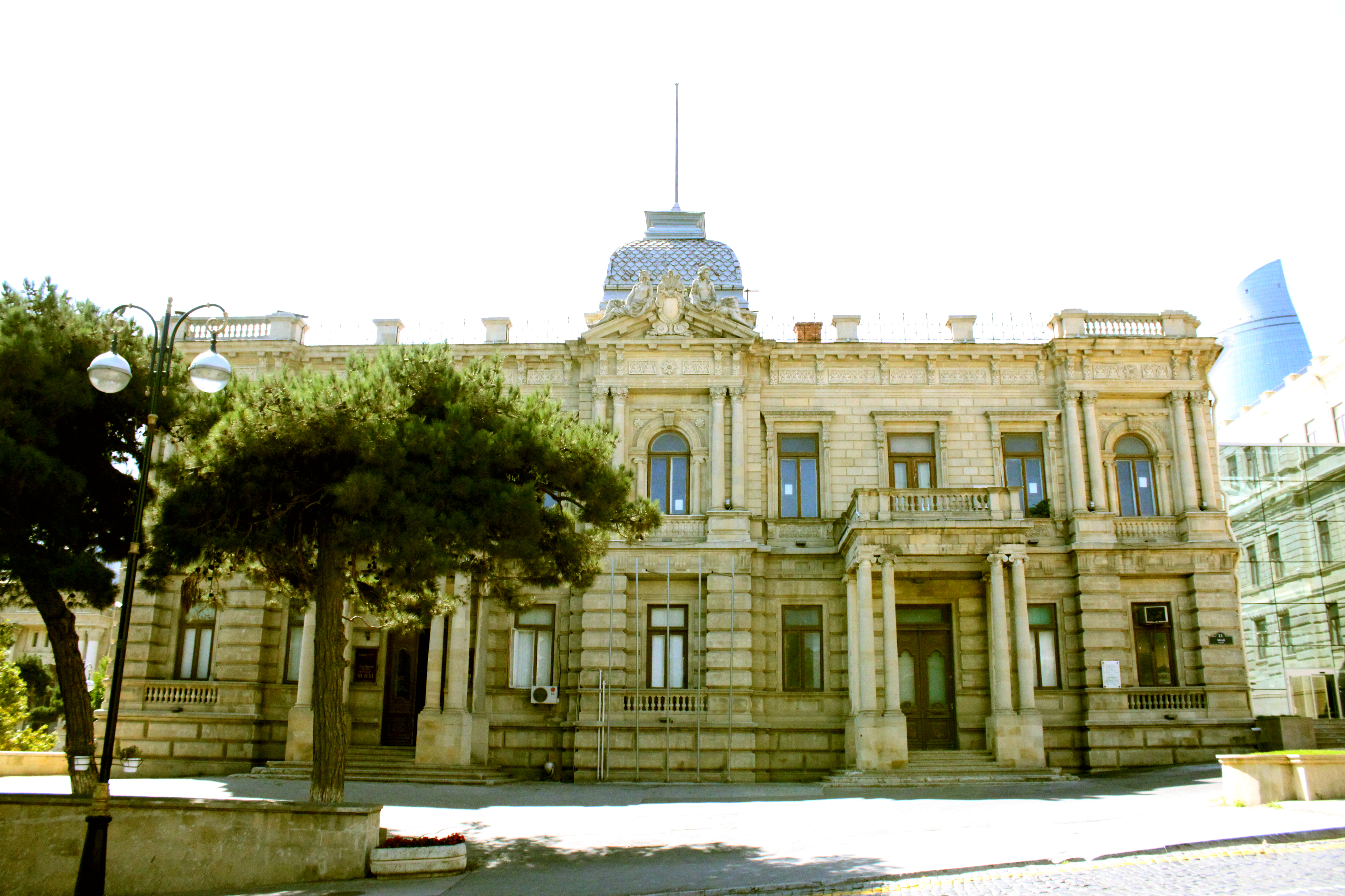 National Art Museum of Azerbaijan first building, Palace of De Bur